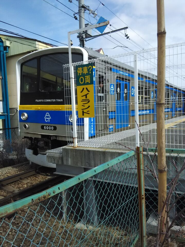 Fujikyoko 6000 series. 吴语: 富士急行6000系电车。